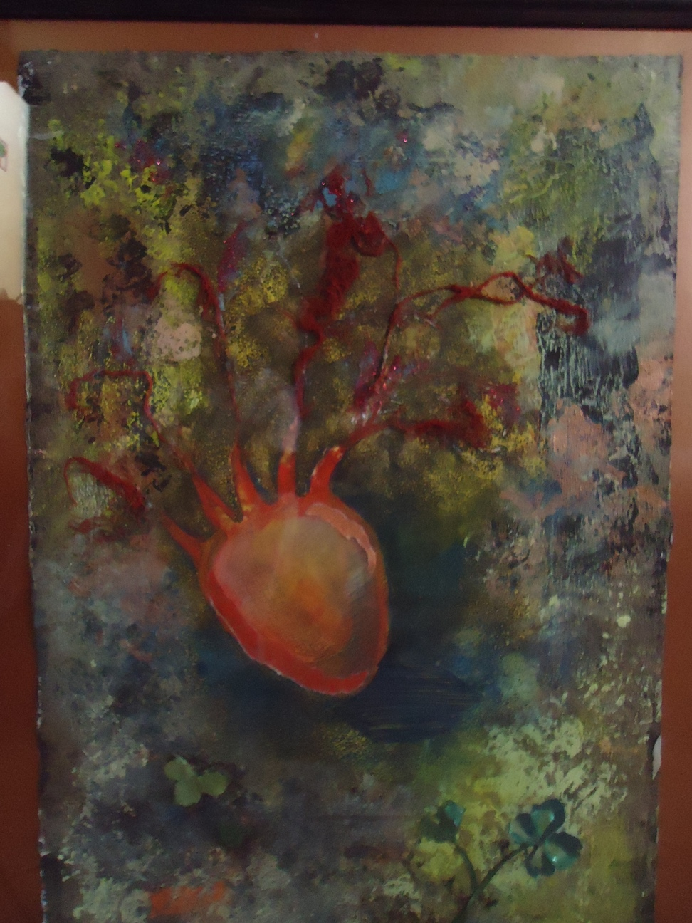 Art piece by Shino Watabe [1]